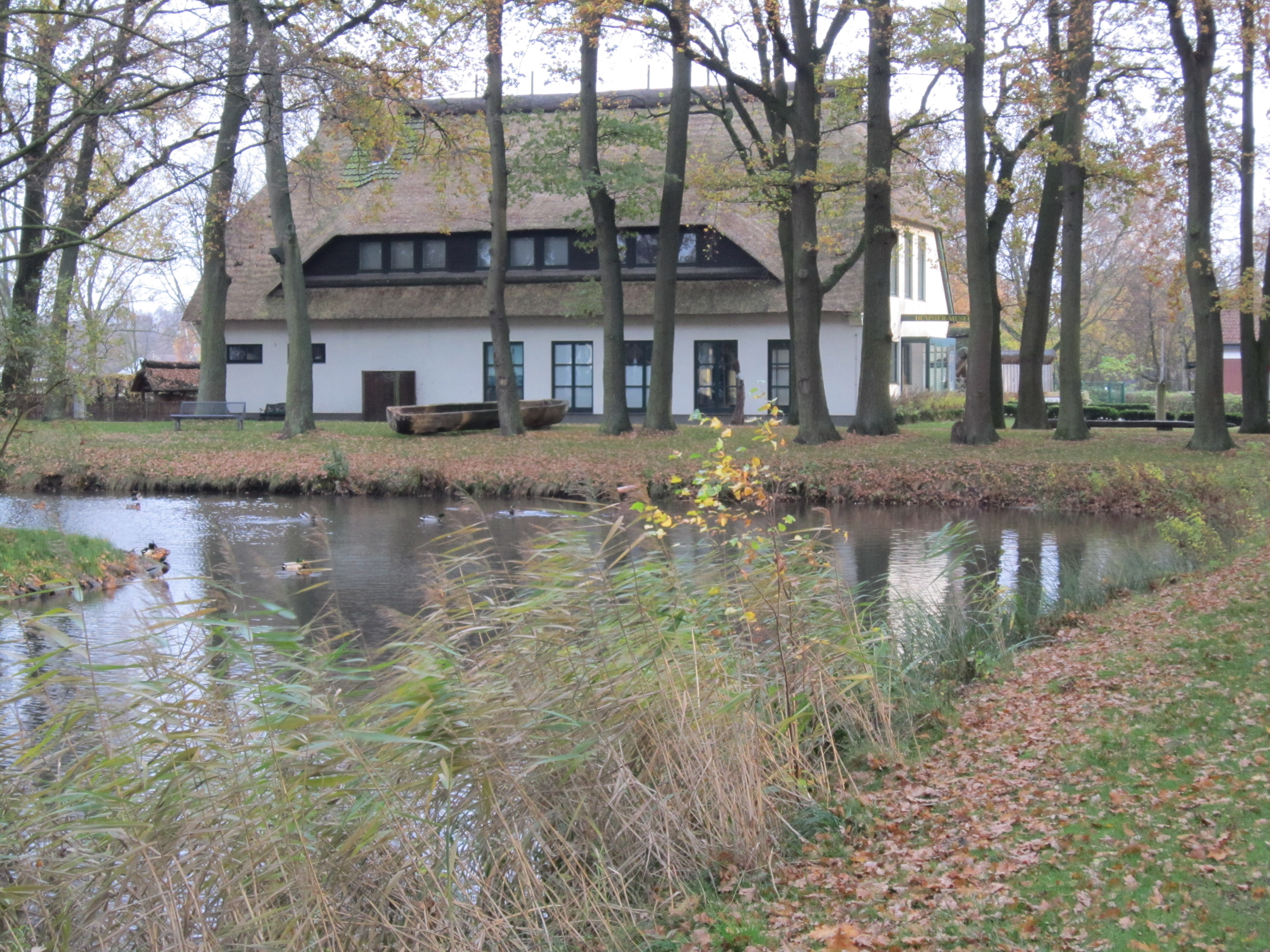 Duemmer Museum in Lembruch